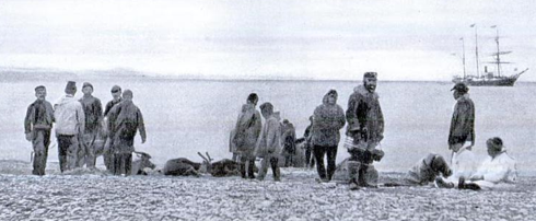 Landing the first herd of reindeer at Teller Station, July 4, 1892